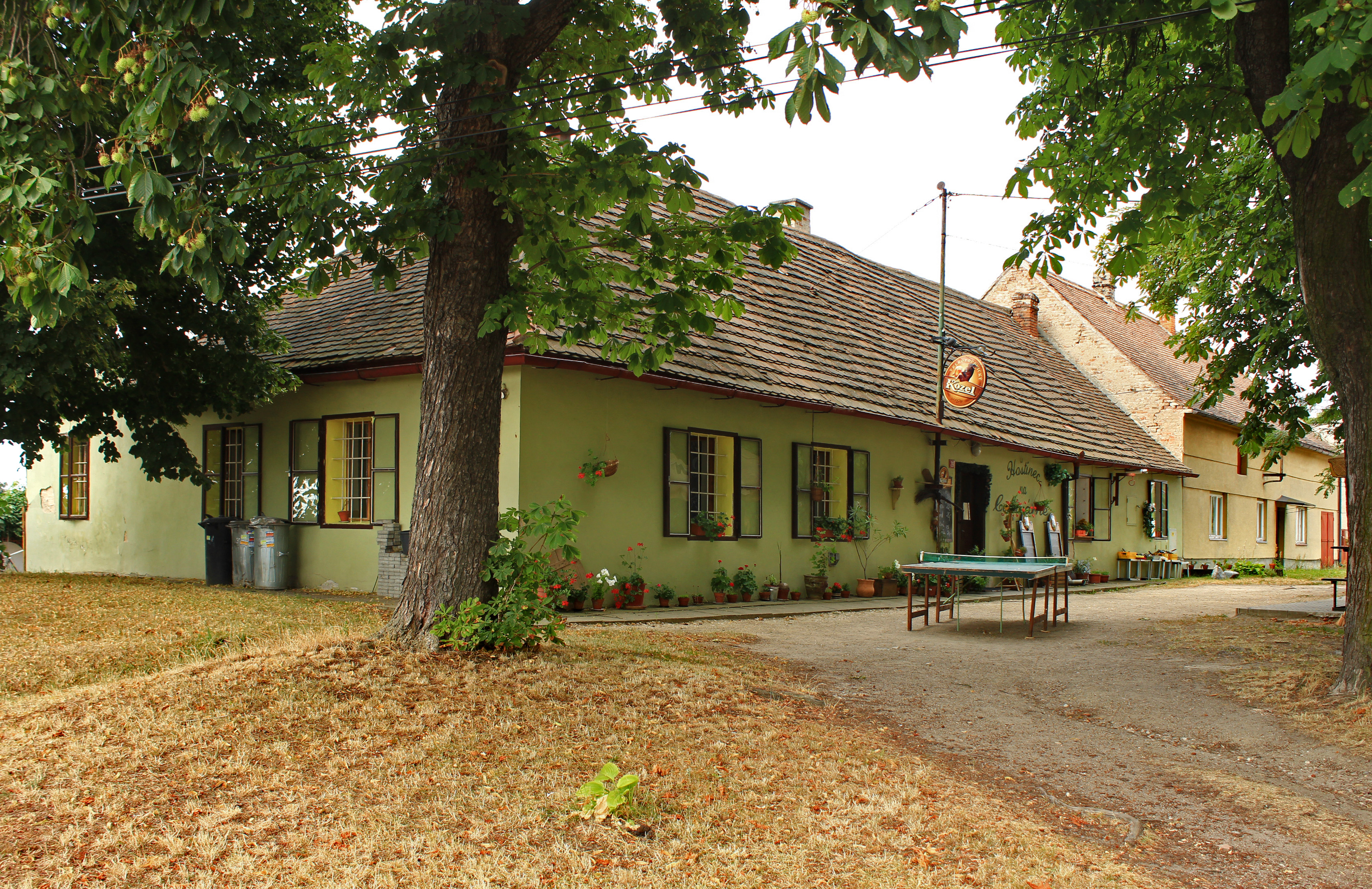 Restaurant in Lžovice, part of Týnec nad Labem, Czech Republic.